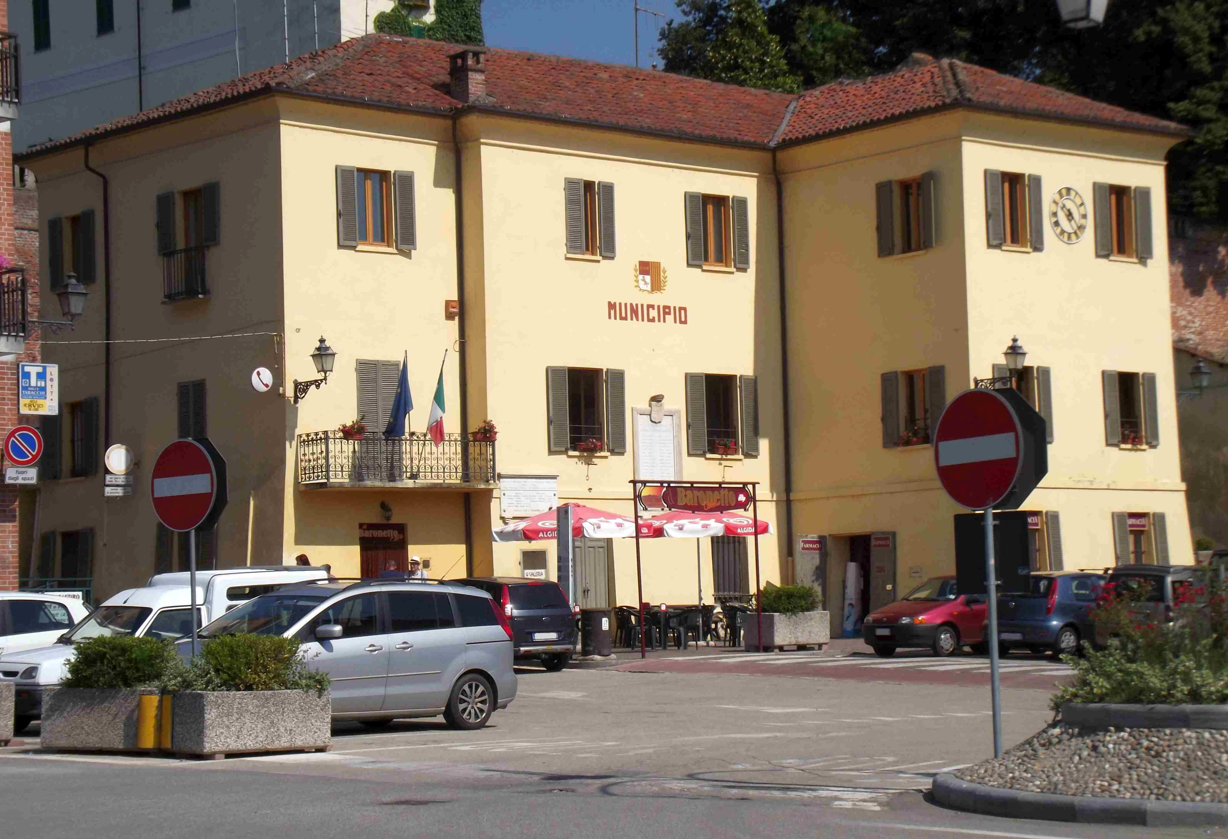 Monale (AT, Italy): town hall